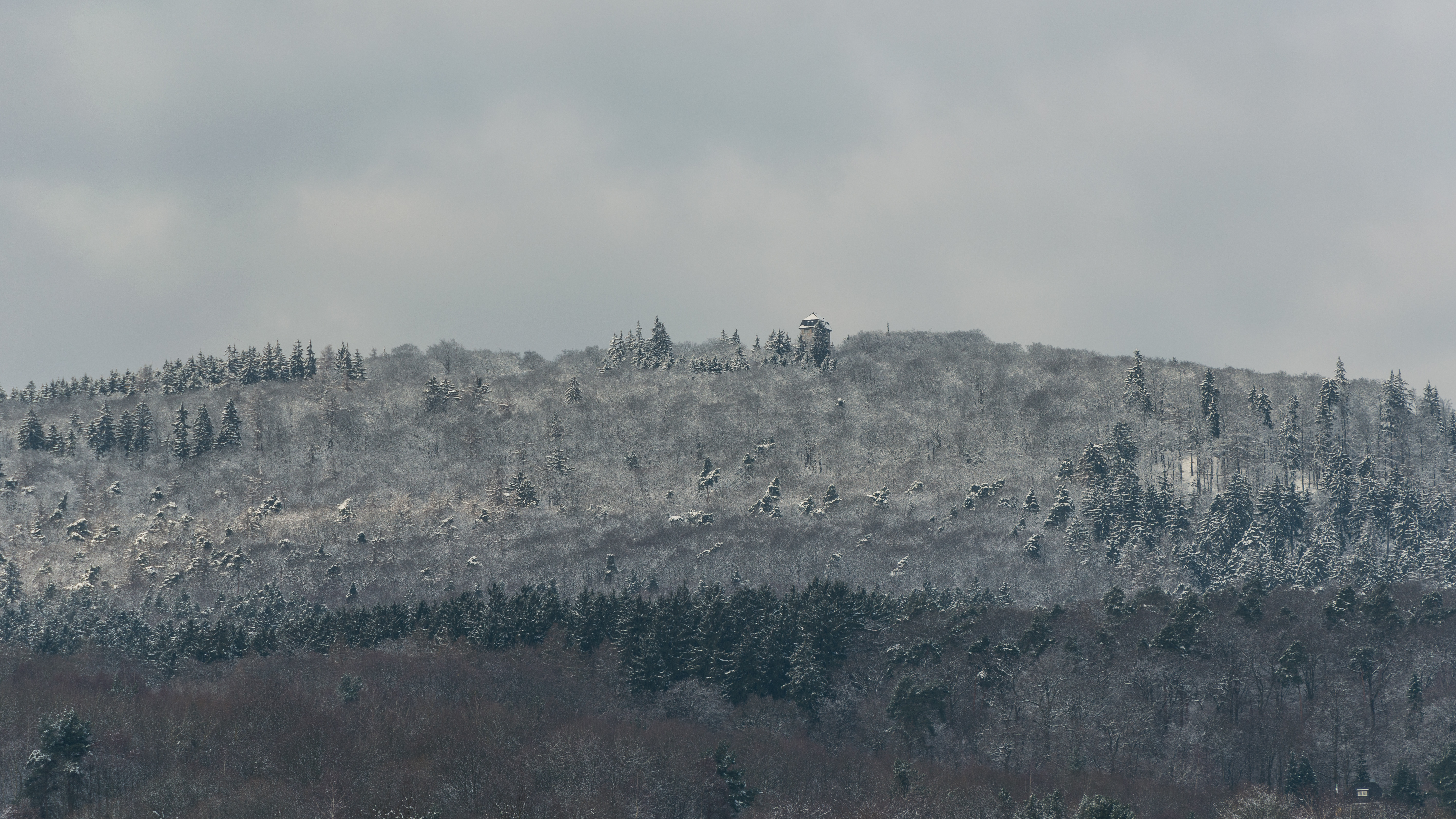 A detail view of the peak of the Hallgarter Zange, one of the highest mountains of the Rheingau. The distinctive observation tower is also visible.